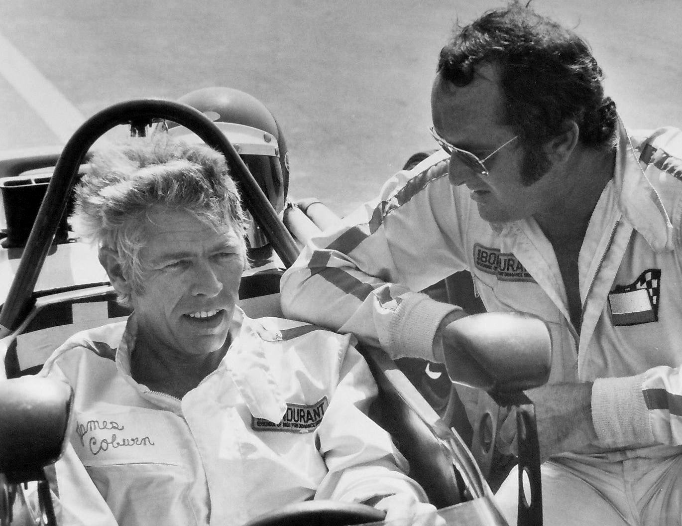 Photo of Bob Bondurant teaching actor James Coburn how to drive a race car.